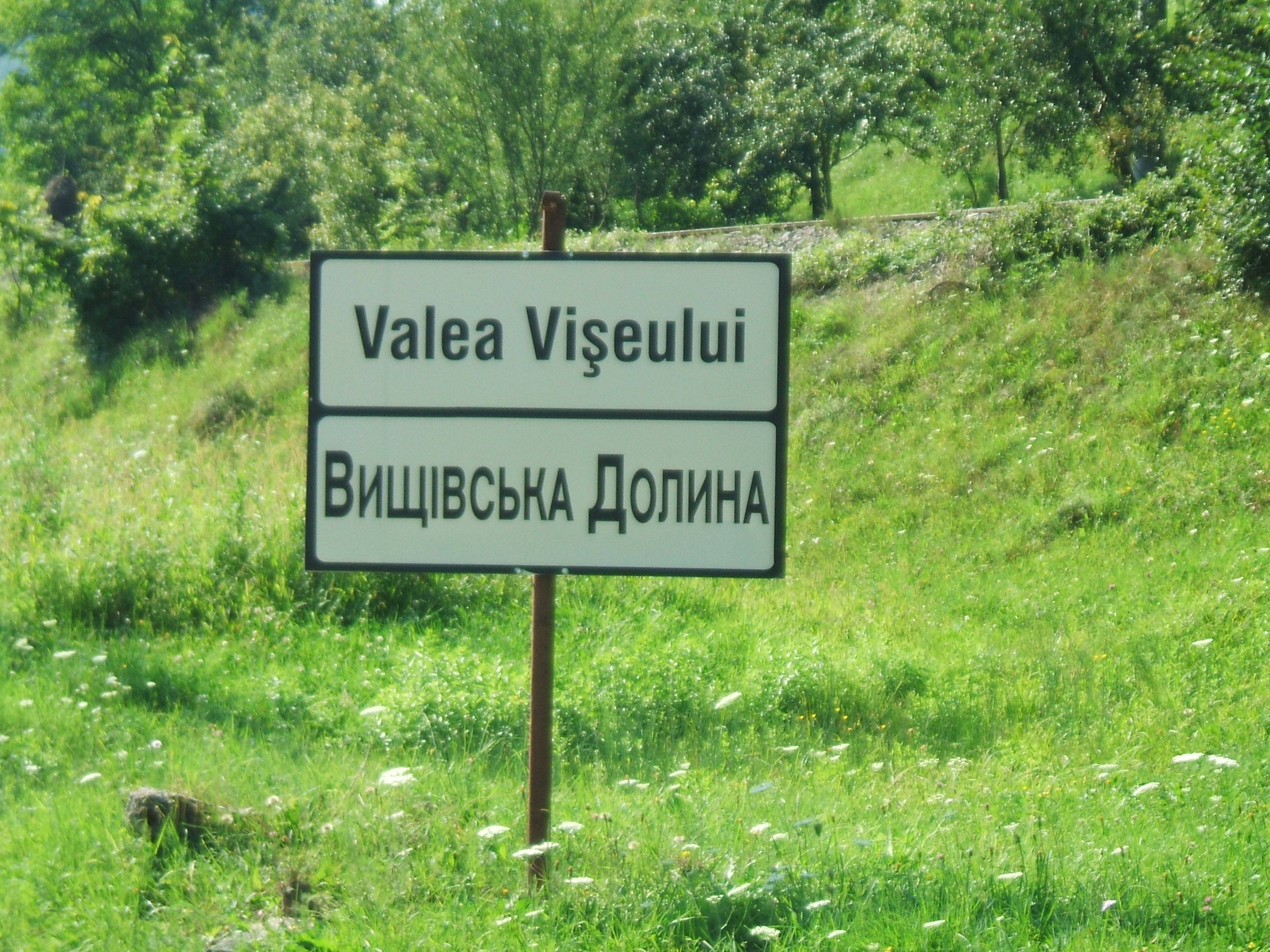 Vviseului4